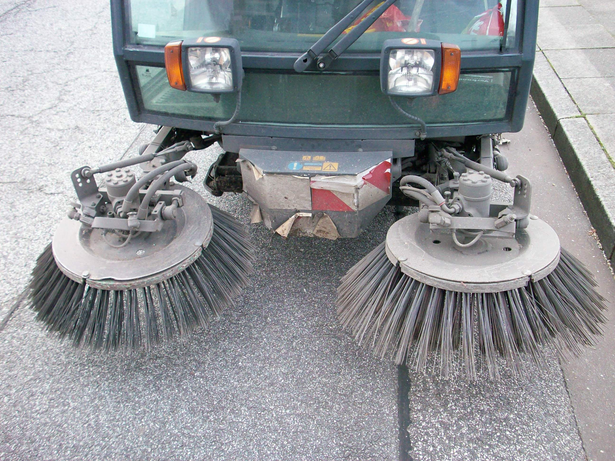 Street sweeper in Hamburg, Germany.